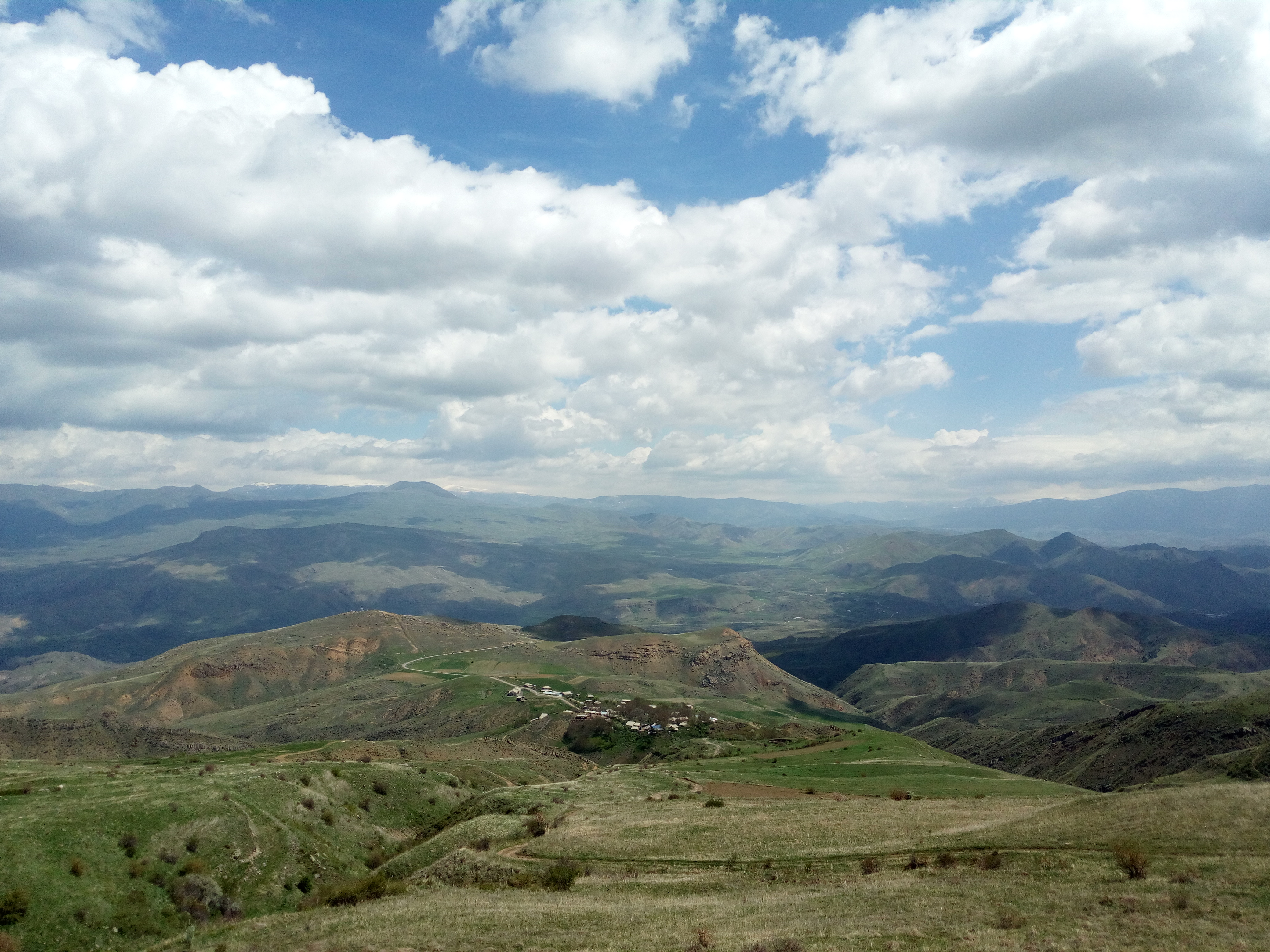 Village Zedea from mount Vardablur